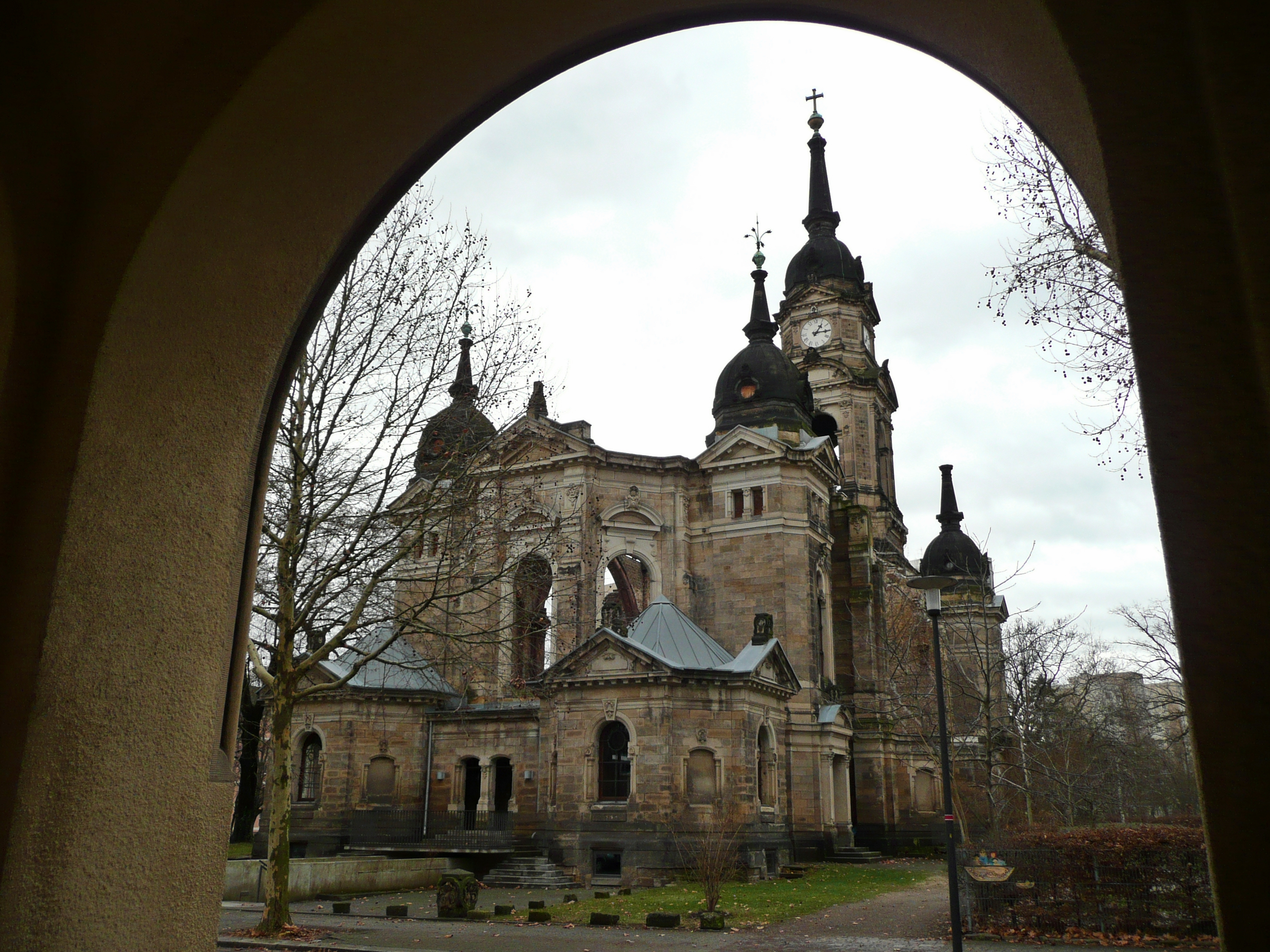 This image shows the Trinity Church in Dresden. The Church was built 1891/93 and was destroyed during the Bombing of Dresden in World War II.